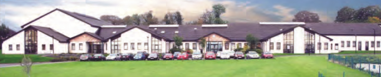 Davis Collge, mallow